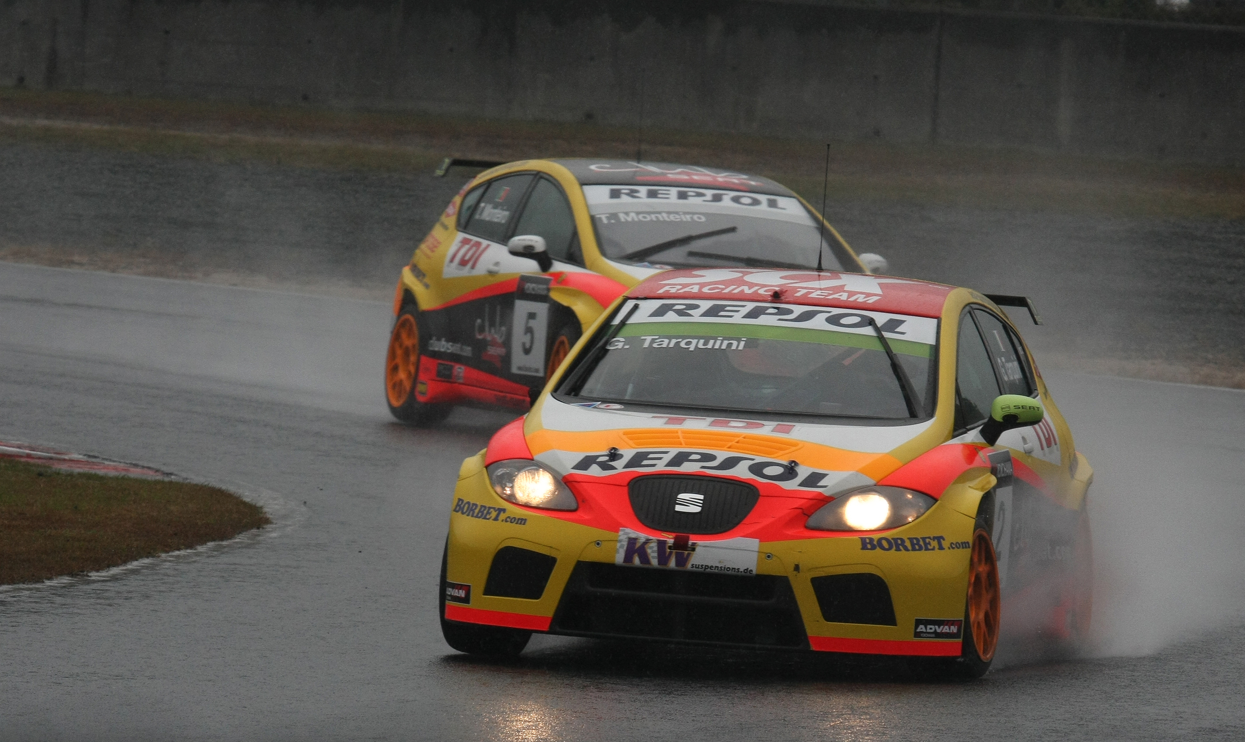 World Touring Car Championship 2009 Race of Japan: Gabriele Tarquini (SEAT Sport) leads Tiago Monteiro (SEAT Sport) at Race 1.